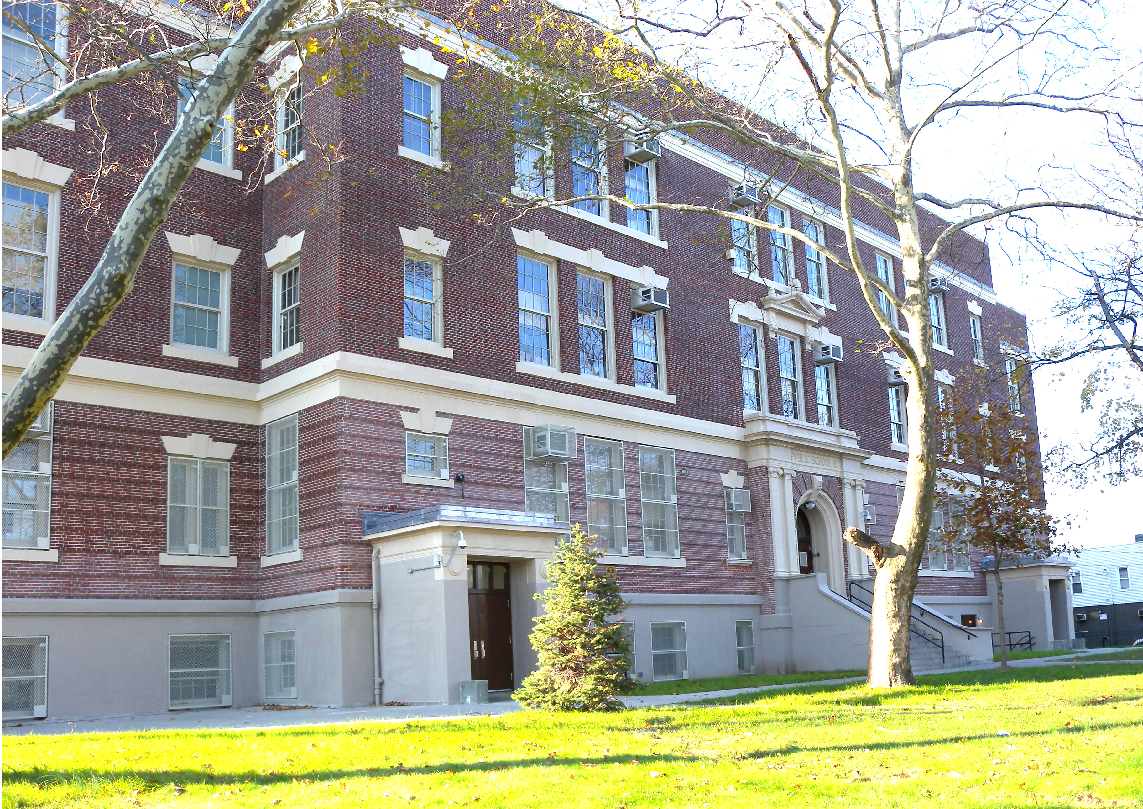 Looking north from 80th Street at PS 87 in Middle Village on a sunny afternoon.